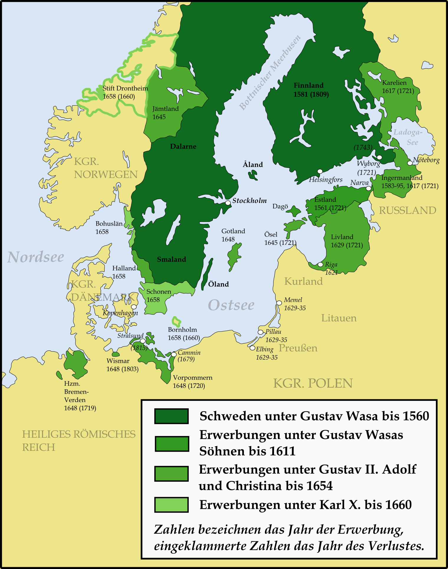 Map in German language showing the development of the Swedish Empire in Early Mordern Europe (1560-1815)